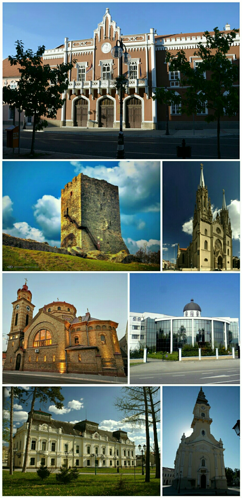 Vršac- photomontage (Vršac townhall, Vršac Castle, The St. Gerhard Bishop and Martyr Catholic Church, Romanian Orthodox Cathedral, Directorate building of Swisslion, Bishop Palace in Vršac, Saint Nicholas Serbian Orthodox Cathedral)